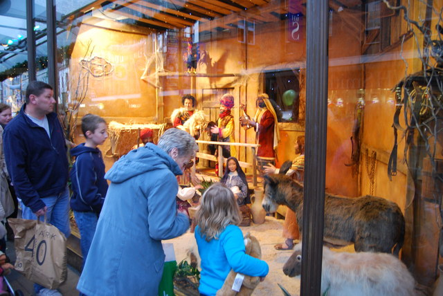 Fenwicks window, Christmas 2009 Since 1971 there has been a Christmas display in the shop windows, and people come from, apparently, 'all over the world' to look at it - certainly I know of friends who come from as far away as Middlesbrough! There are records however going back to the 1930's to indicate that displays have been done. This year the theme is a very traditional nativity - very different from the 2002 Aliens theme (Christmas in Another World) which showed aliens celebrating Christmas and sparked lively discussion in the letters page of the local papers... however, the fact that these characters are wearing Arab dress has provoked some debate - not quite sure that the commentators really know exactly where Bethlehem is.